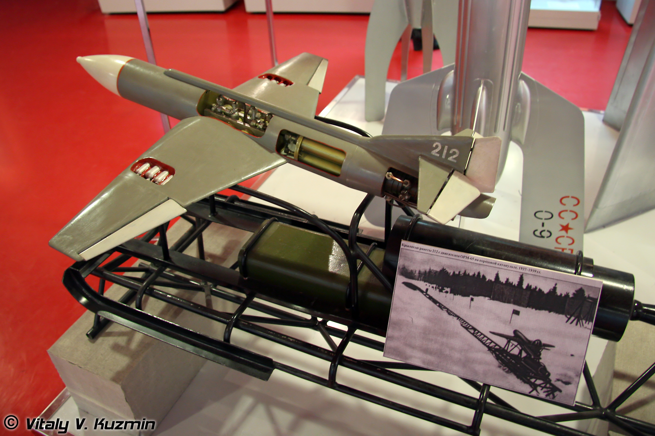 Automatic guided missile K-212 of S.P. Korolev design. Launched January 29, 1939